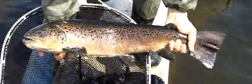 Sevan trout Gegarkuni (Salmo ischchan gegarkuni)